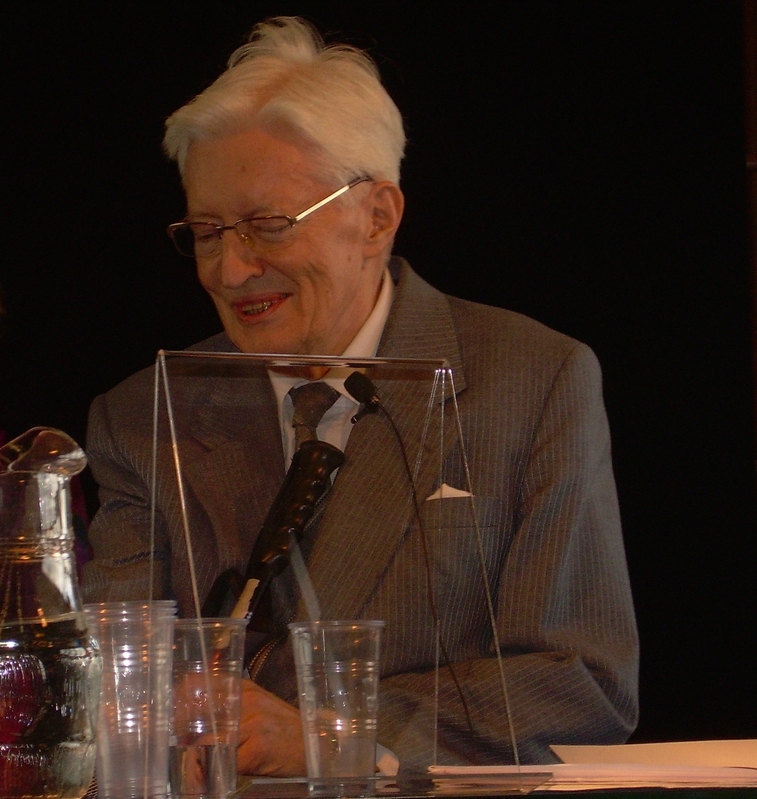 Finnish poet Lassi Nummi at the Turku International Book Fair.